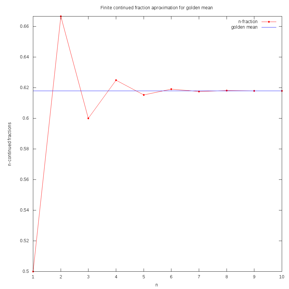 Approximation of golden mean by finite continued fractions